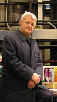 Emilio Zavattini, an Italian physicist. PVLAS collaboration. The picture was taken in 2006 on the site of the PVLAS experiment.